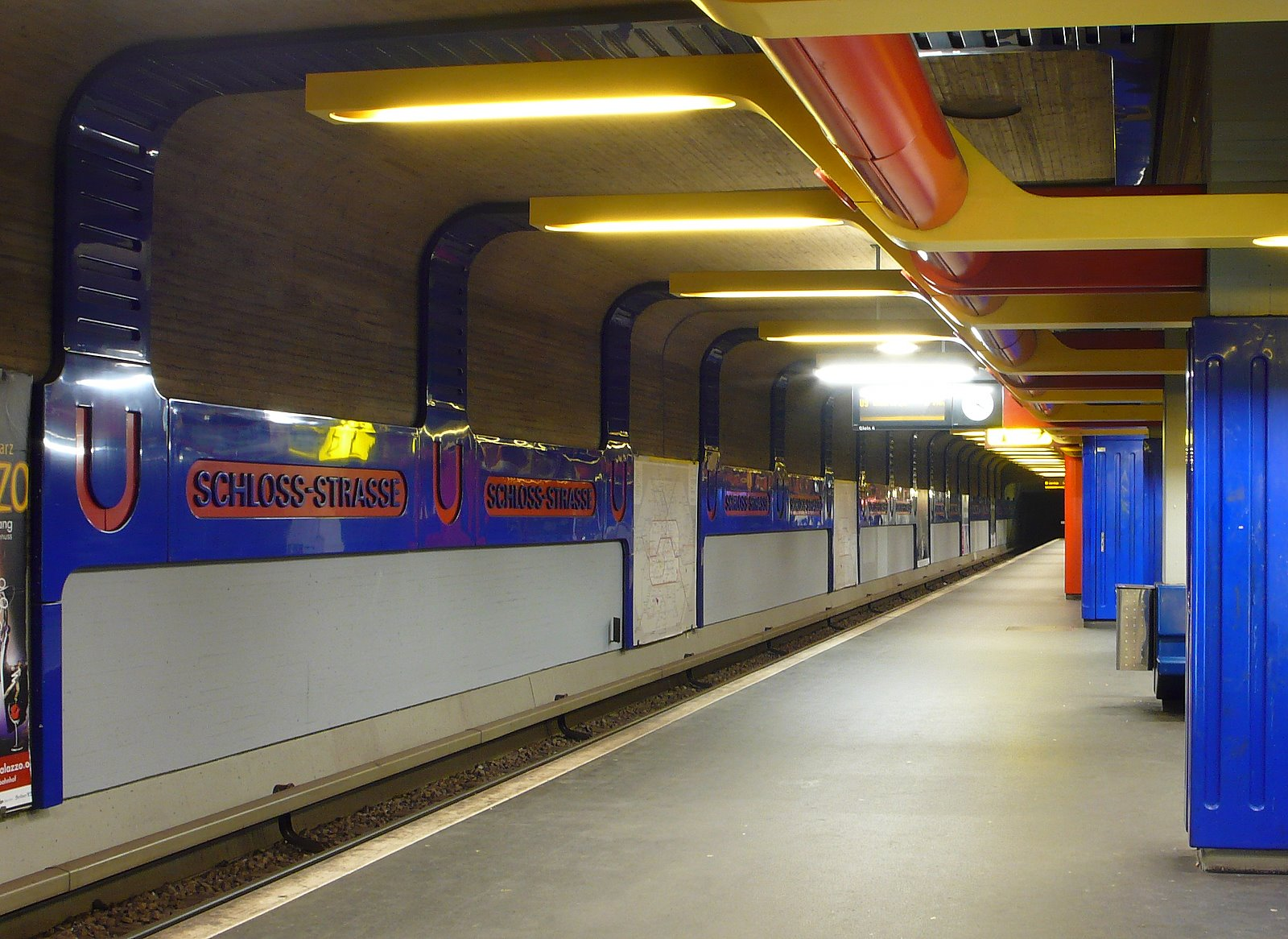 subway Schlossstrasse